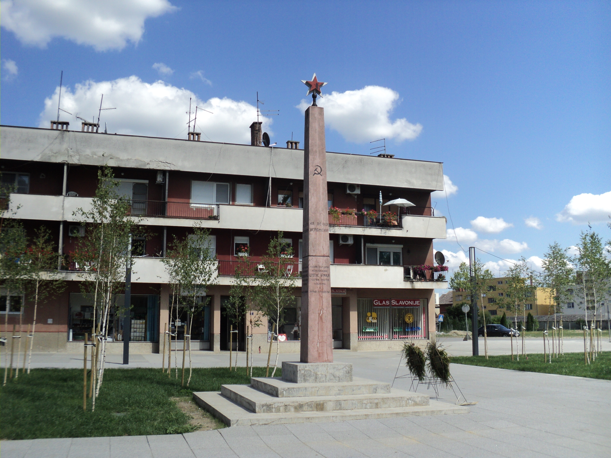 Monument dedicated to the fallen Red Army soldiers who liberated Beli Manastir in 1945, located at the Freedom Square.